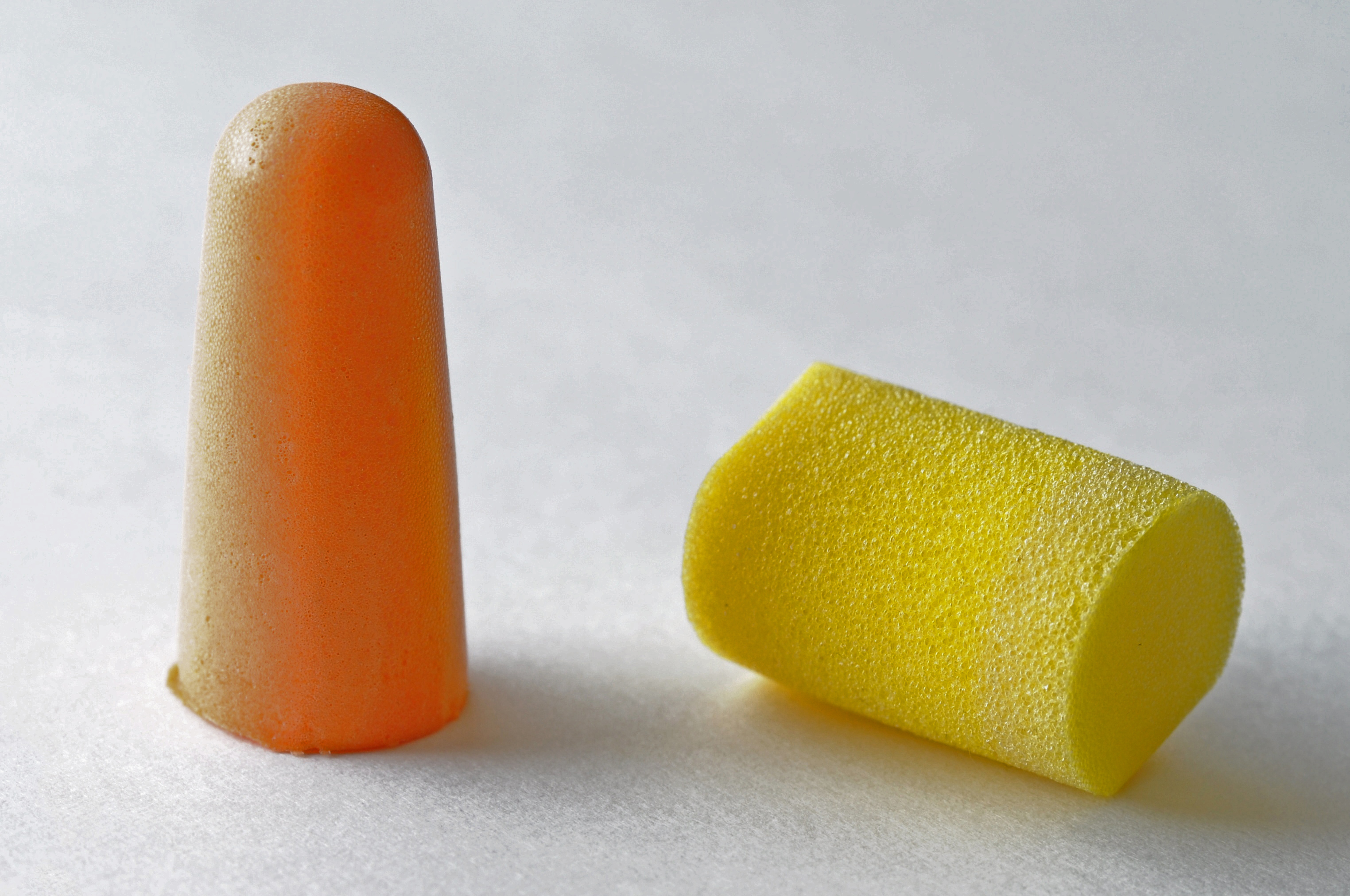 Two versions of earplugs. Yellow: E-A-R; Orange: made in Taiwan